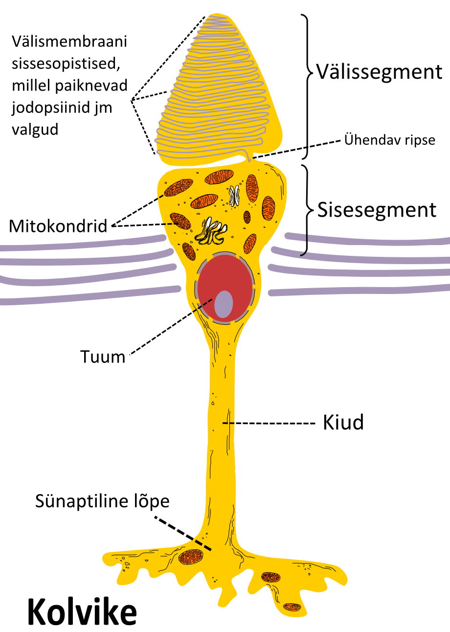 Drawing of a cone cell.